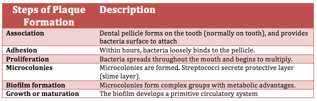 Simple description of the different steps of plaque formation